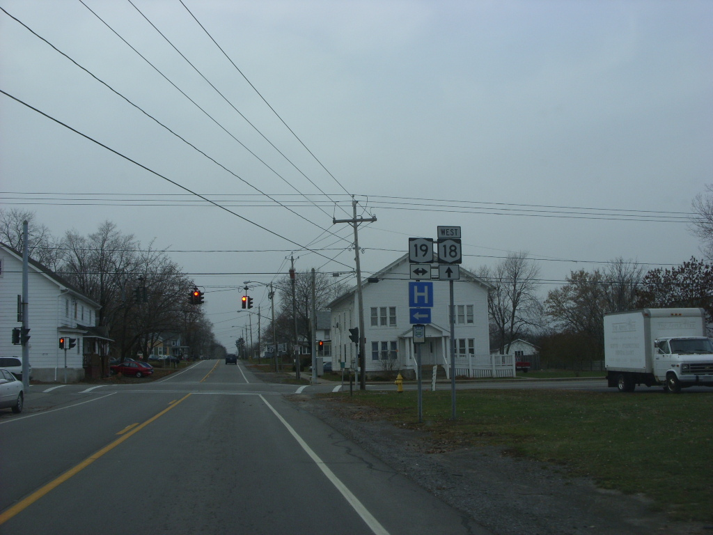 Westbound on New York State Route 18 at New York State Route 19 in Hamlin. In the early 1930s, NY 18 turned right here and followed modern NY 19 and New York State Route 360 into Orleans County.